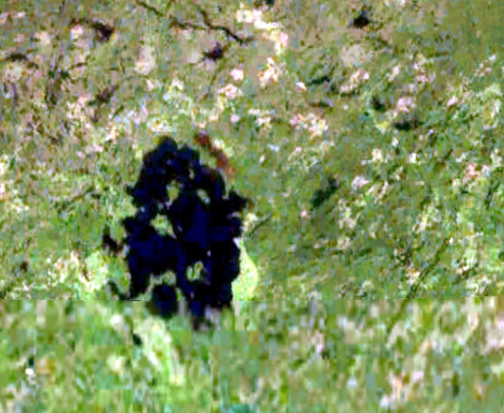 Nipigon Lake from a Space